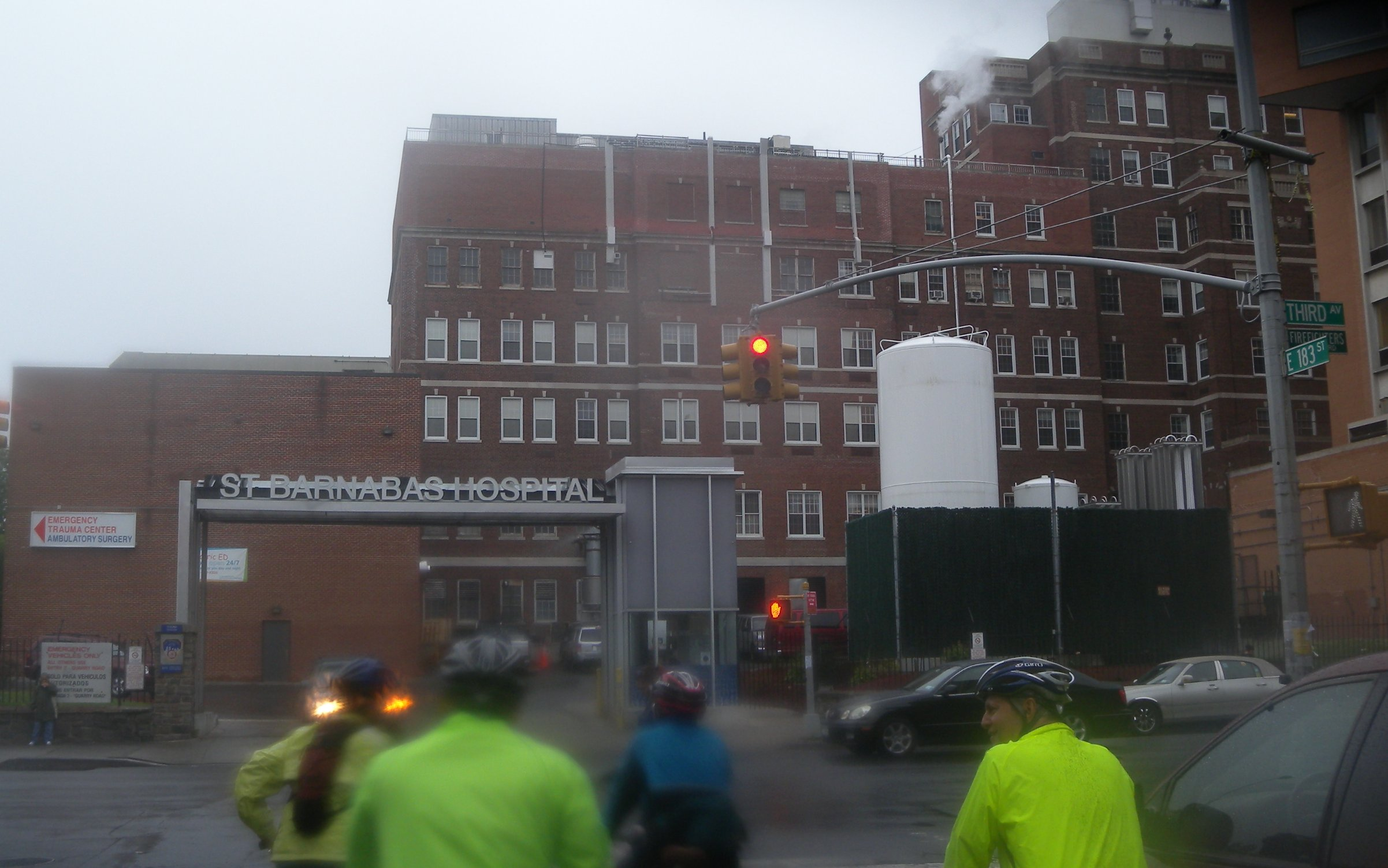 Looking southeast from 183d Street across 3d Avenue on a rainy late morning.